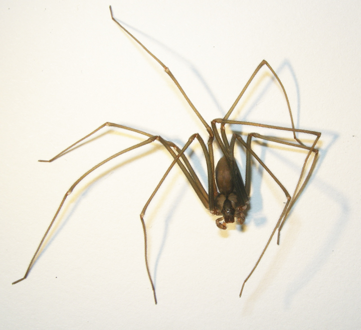 Loxosceles foutadjalloni. Brown Recluse spider relative from Guinea.